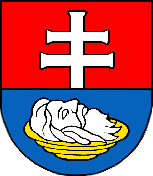 Coat of arms of Spišské Vlachy, Slovakia